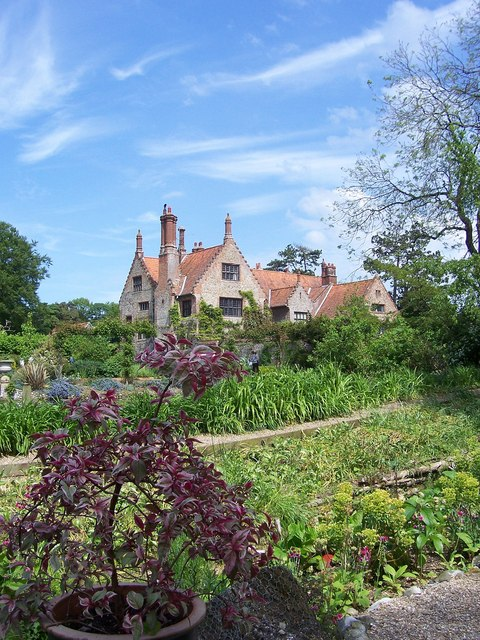 Hindringham Hall, Hindringham, Norfolk Hindringham Hall, a Tudor house of flint and brick construction, surrounded by a moat known to date from 1250. View looking north-east.